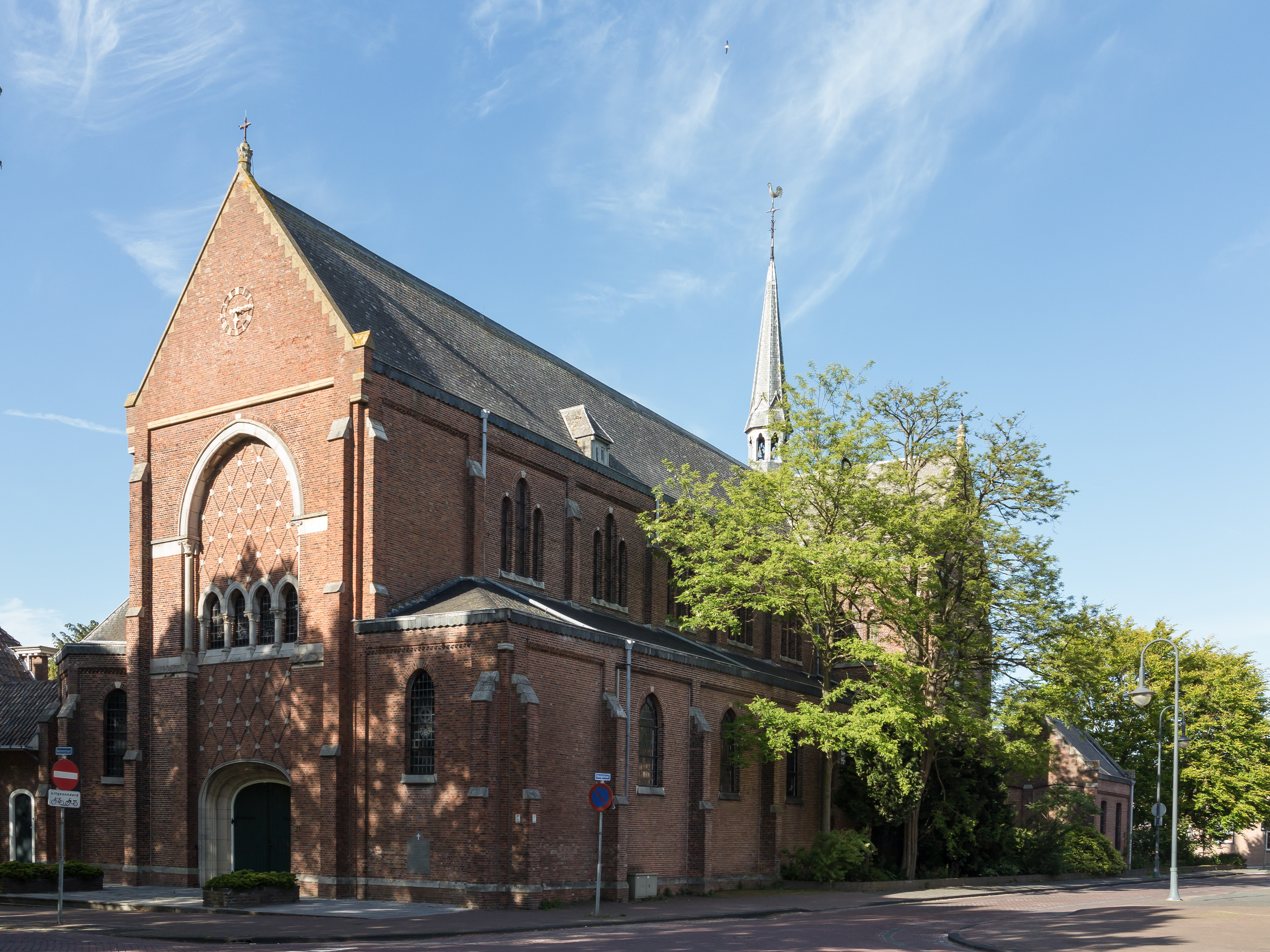 Klundert, church: de Johannes de Doperk